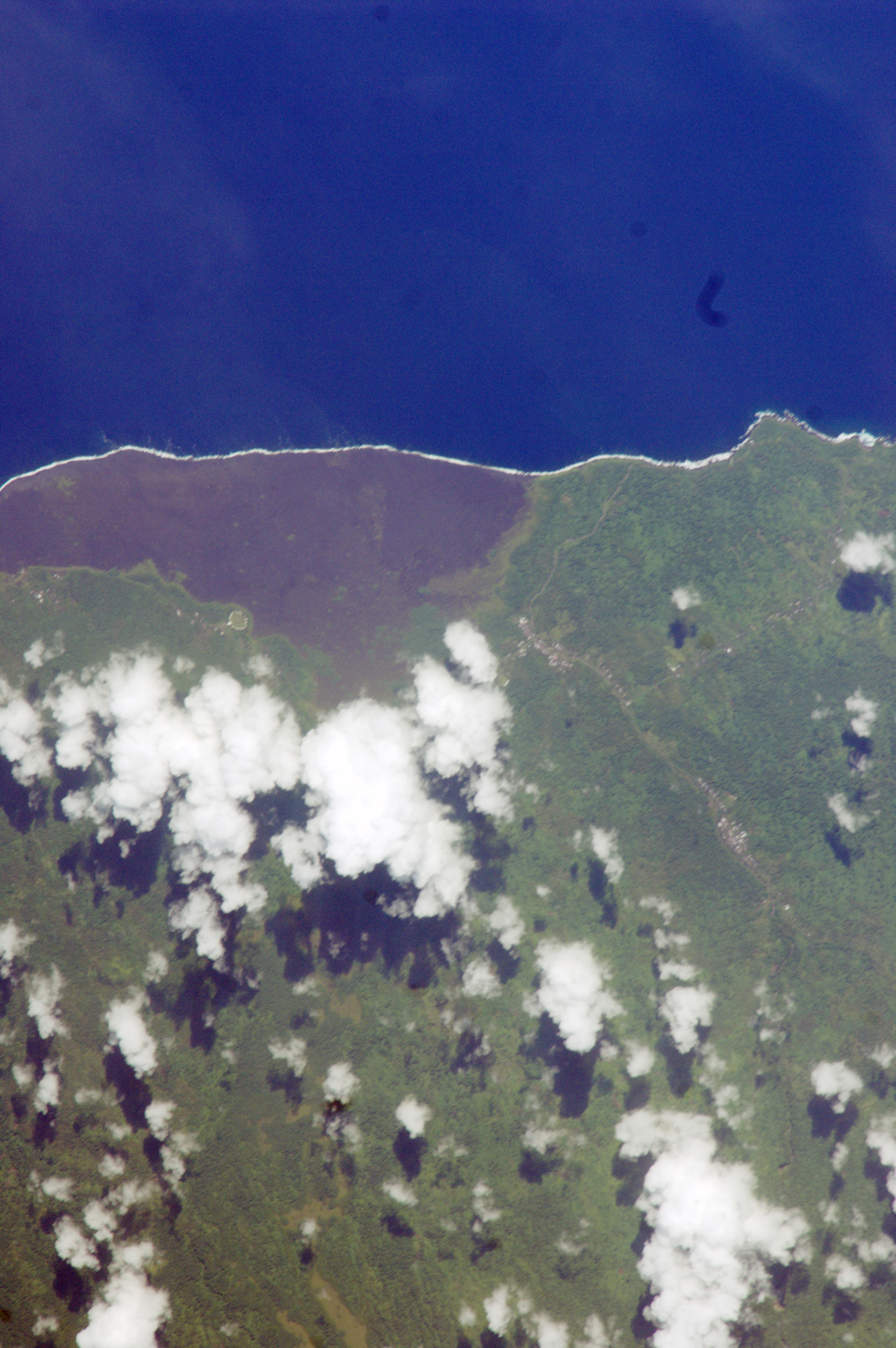 Savai'i island, north east coast showing extensive lava fields from volcanic eruptions early in the 20th Century. Image shows the tiny settlements of Mauga, Samalae'ulu and Patamea.